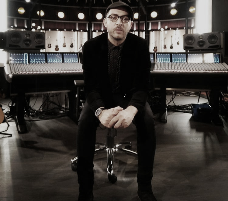 Photo of Robby De Sa (Music Producer) in a studio